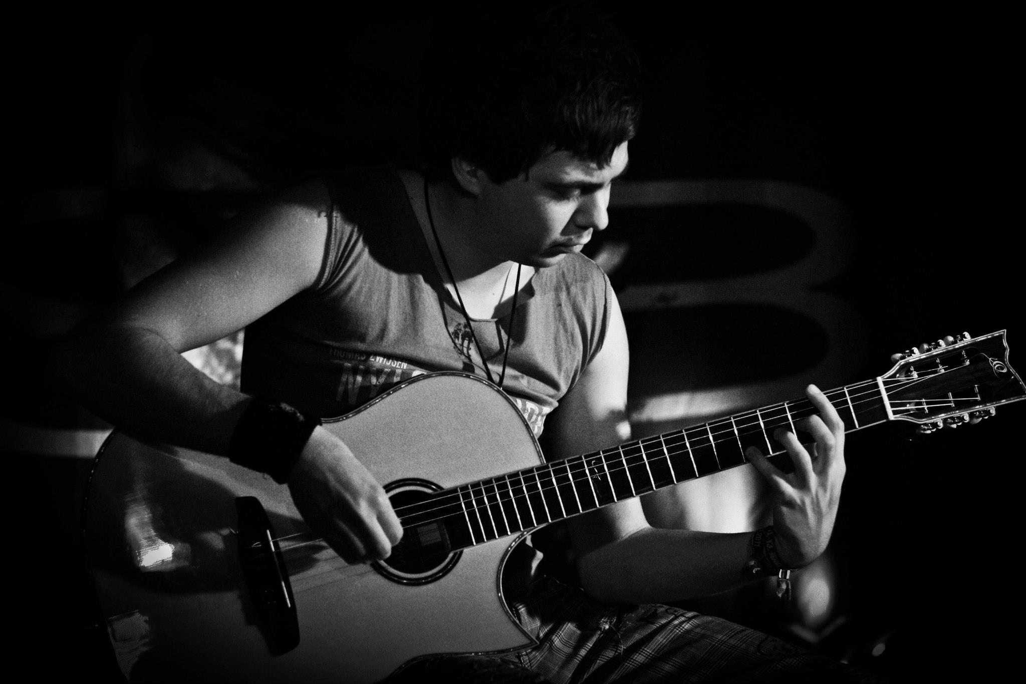 Dutch heavy metal/classical guitarist Thomas Zwijsen, taken on his World tour in 2013.